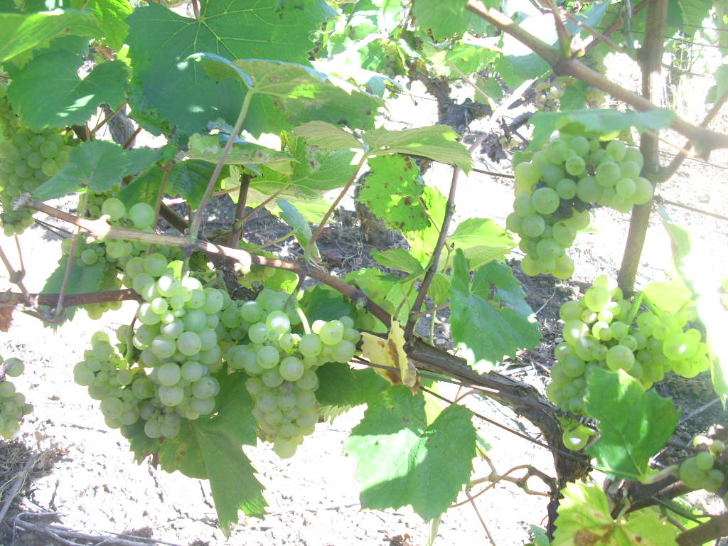 Grape bunches of Aligoté grapes in Mellecey